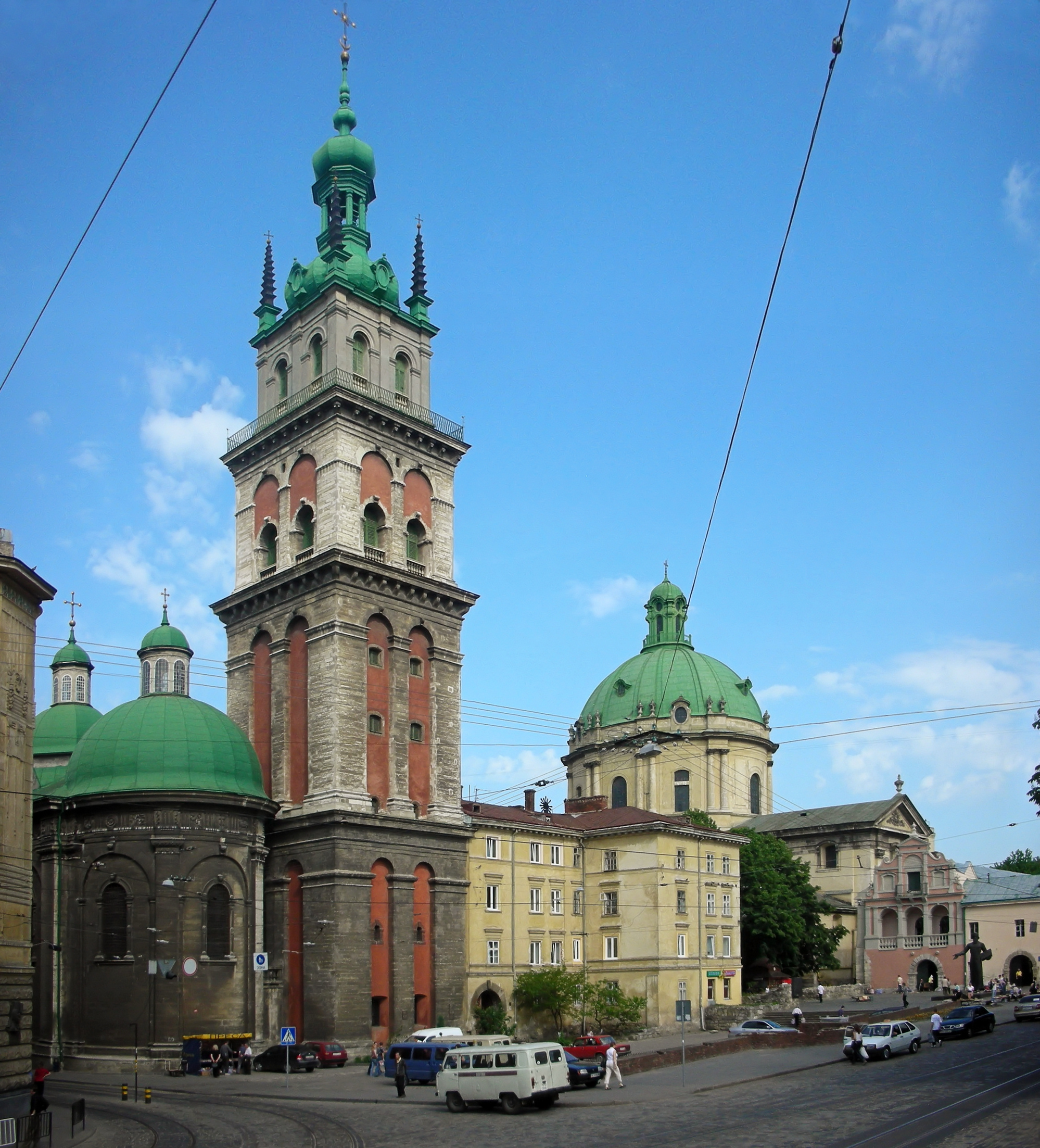 Church of the Assumption in Lviv (Ukraine).